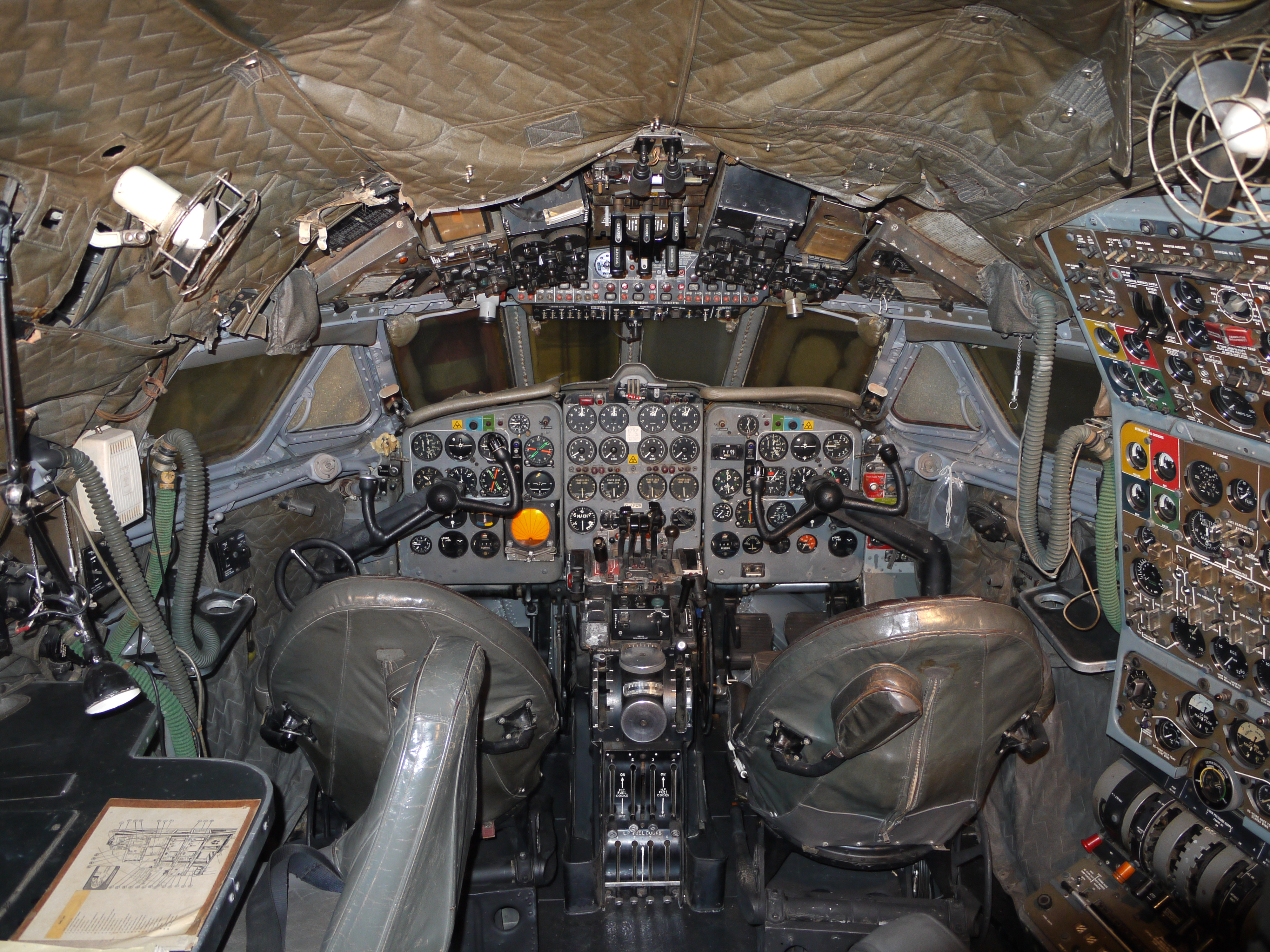 Photo of a De Havilland Comet 4 Cockpit.